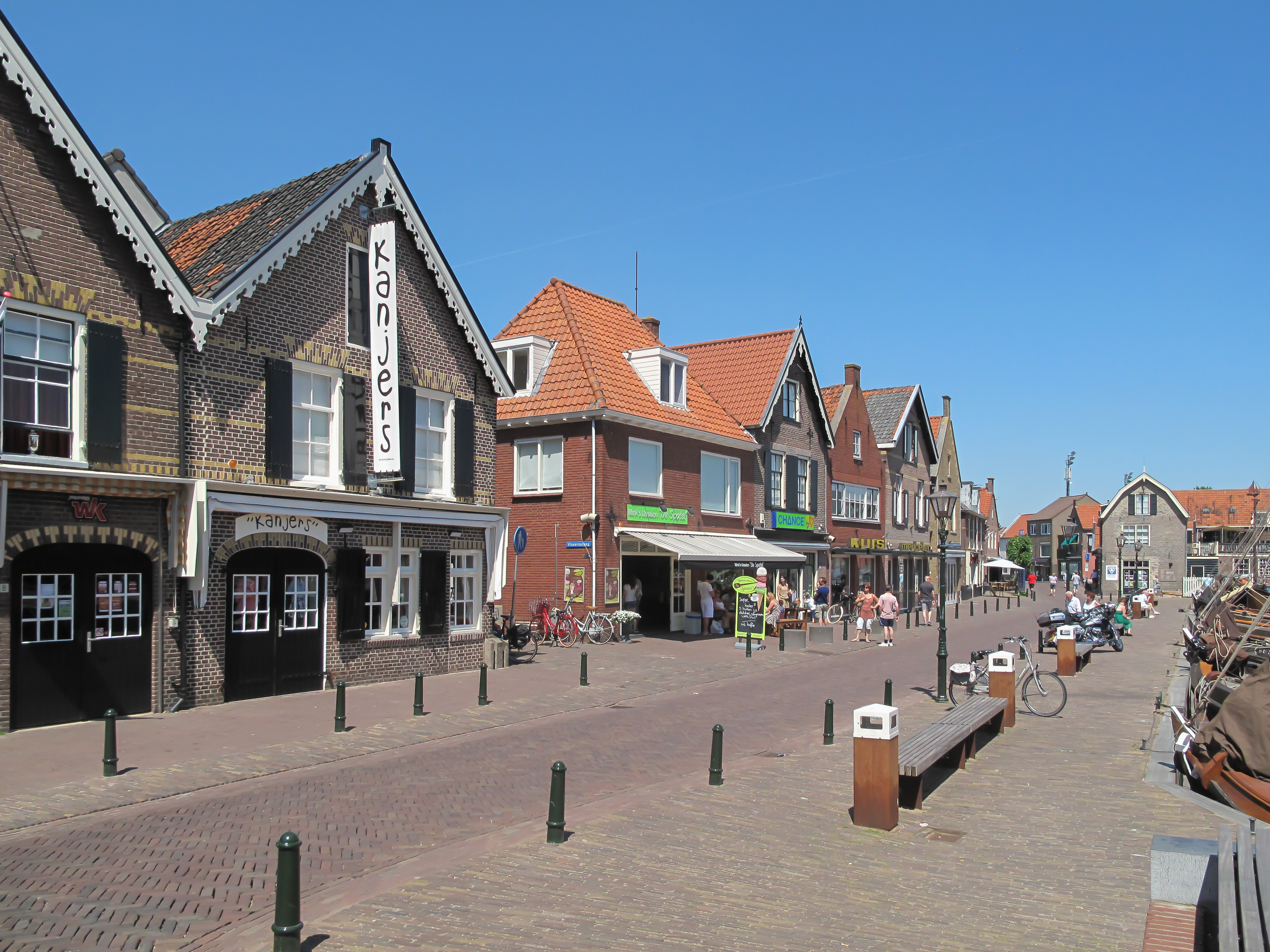 Spakenburg, view to a street: de Oude Schans